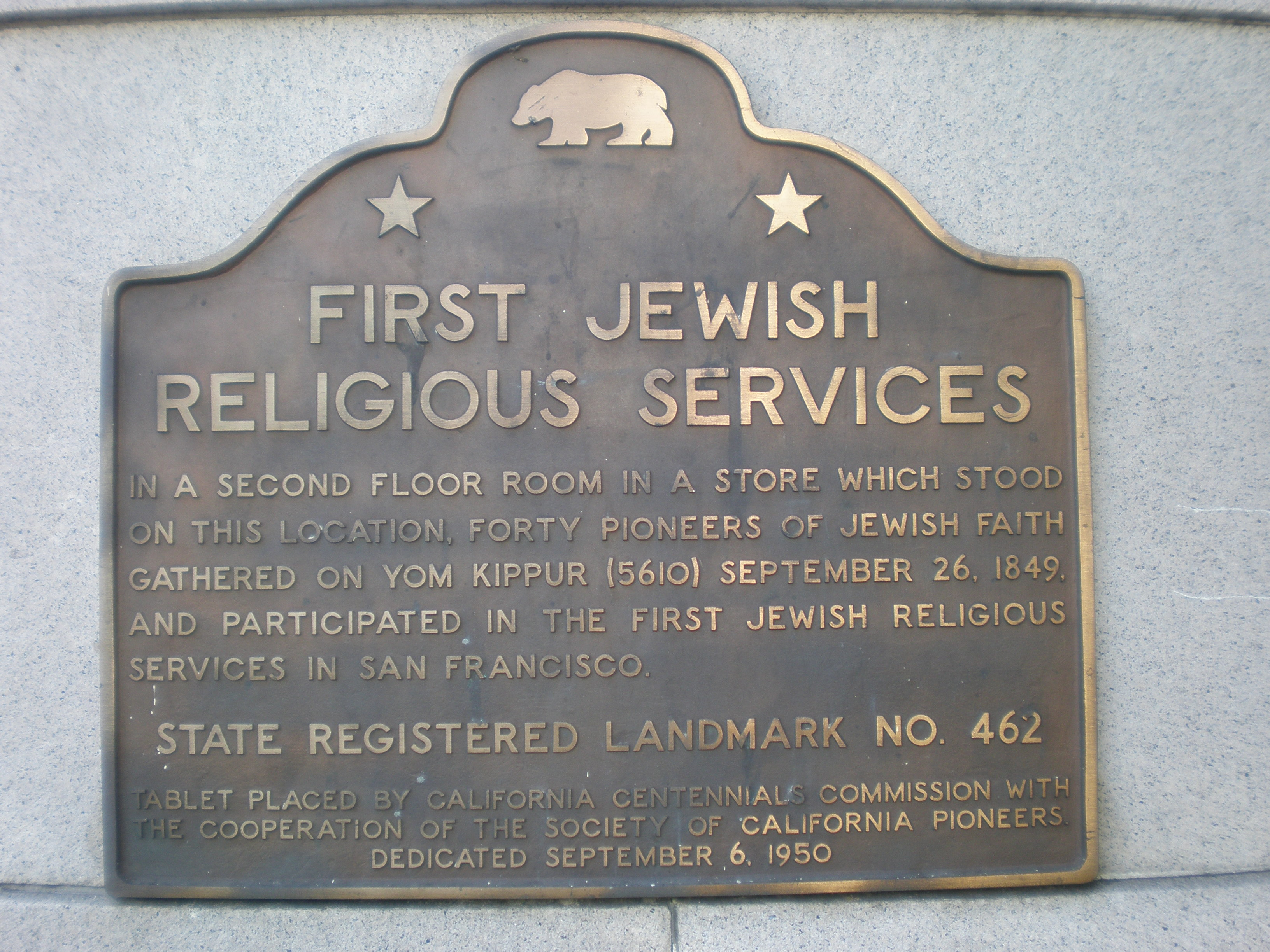 A plaque commemorating the site of the first Jewish religious services in San Francisco at 735 Montgomery Street